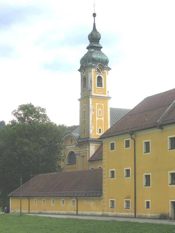 Reisach (municipality of Oberaudorf), Church of Saint Theresa and John of the Cross of the Carmelite monastery from north-west.